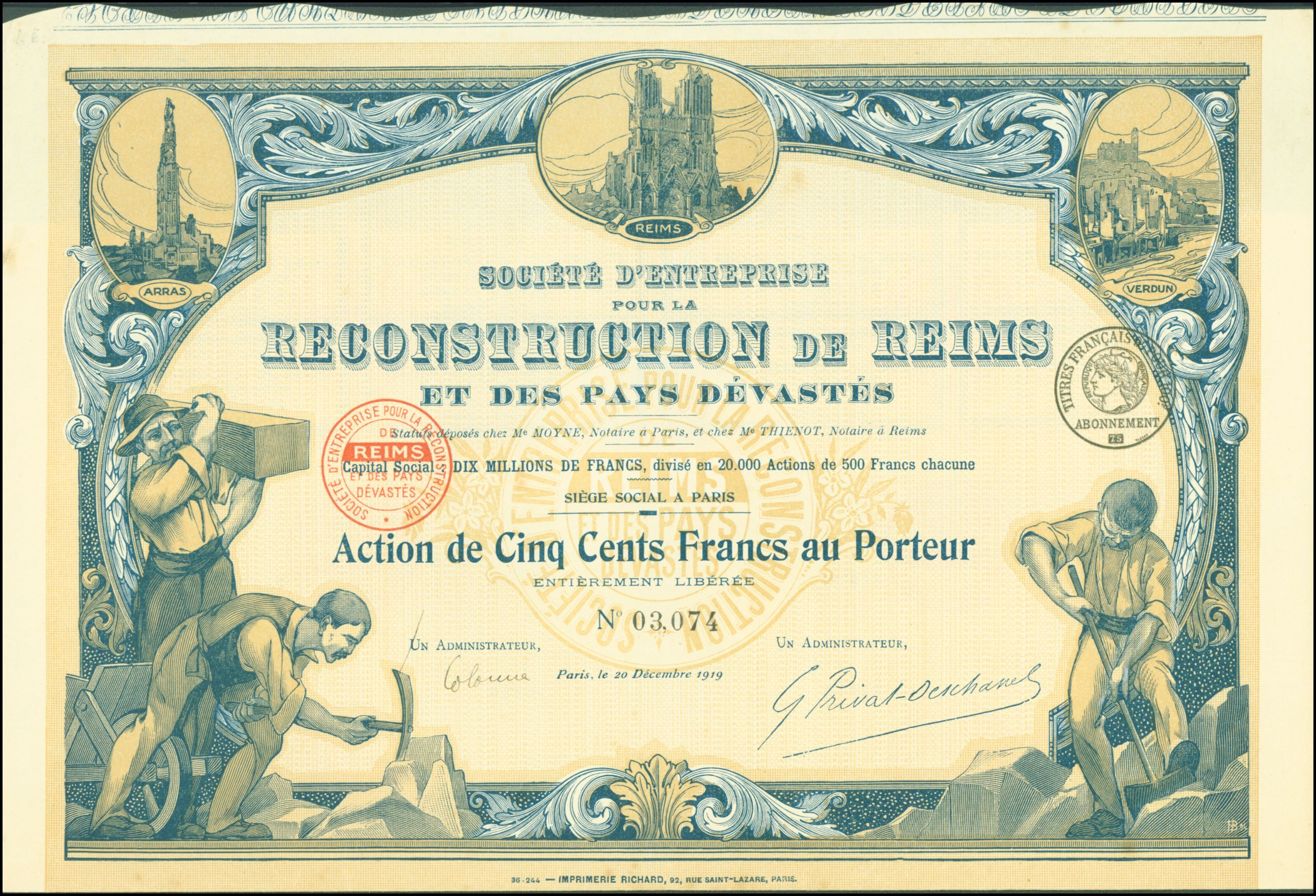 Share of the Enterprise pour la Reconstrucion de Reims et des Pays Dévastés, issued 20. December 1919